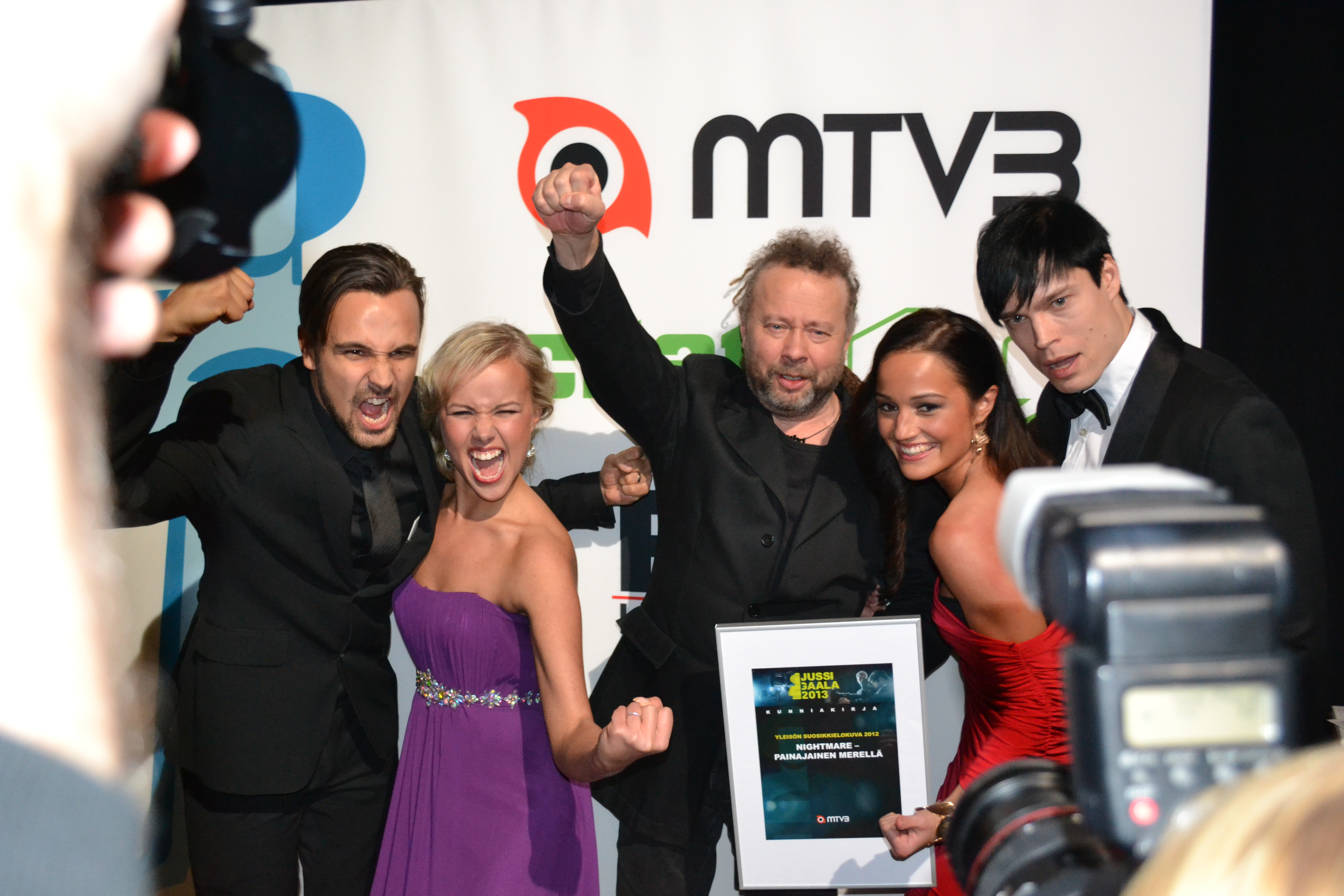 The film "Nightmare - painajainen merellä" was awarded by public votes in 2013 Jussi Awards